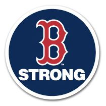 The "B Strong" badge used by the Boston Red Sox during their 2013 season to show their support for the victims of the Boston Marathon bombing.